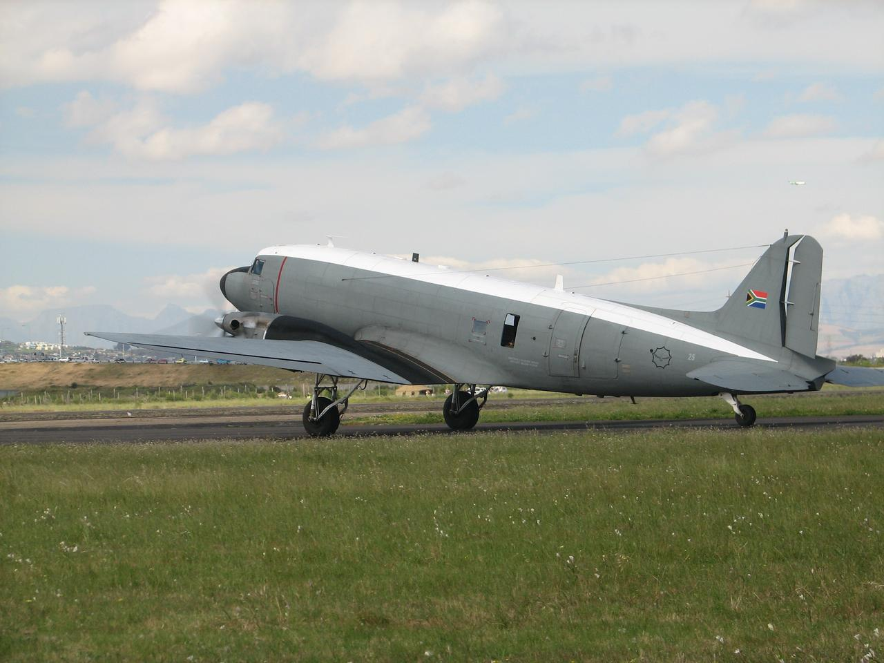 Dakota C-47 at Ysterplaat Airshow, Cape Town